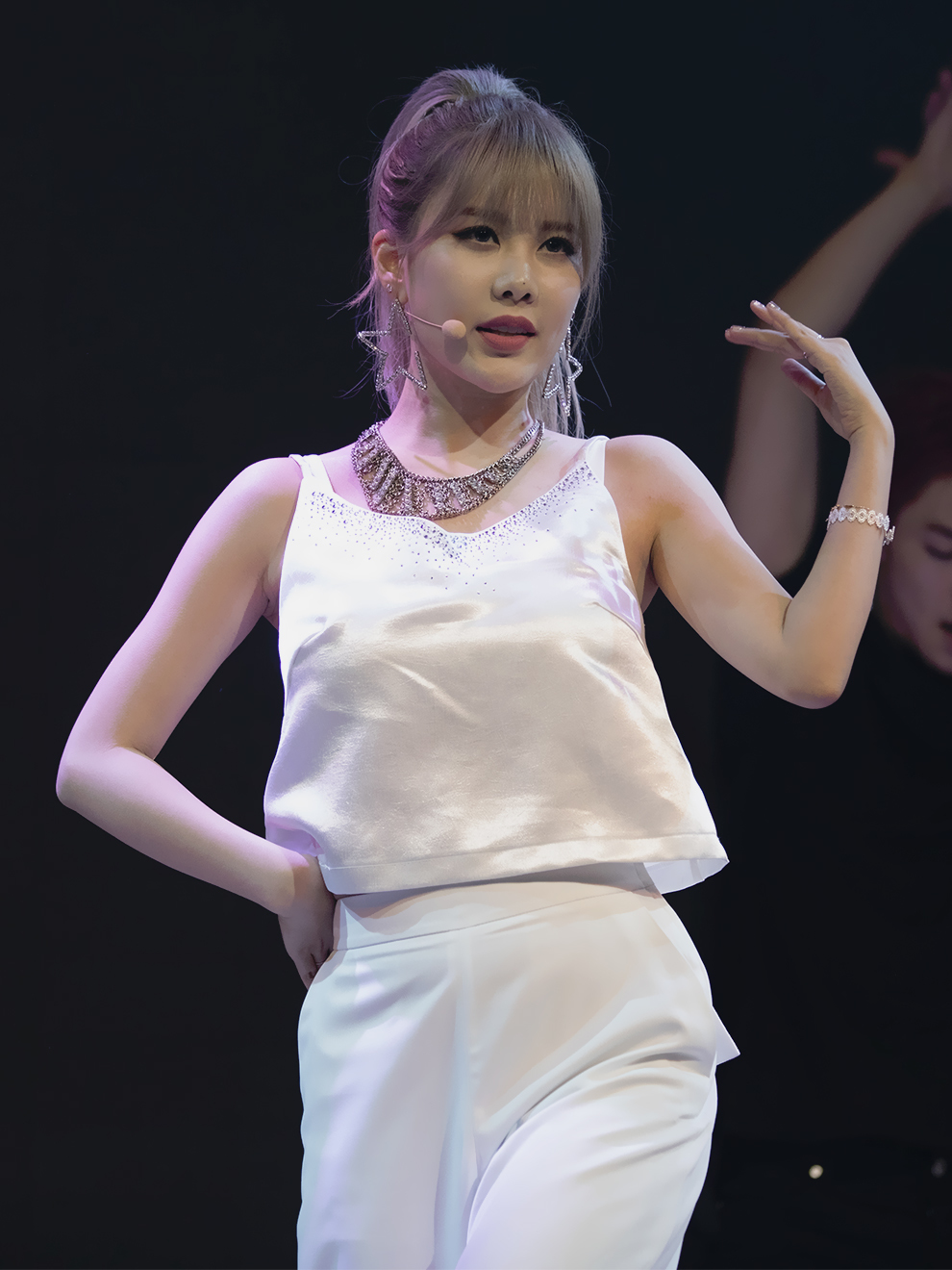 170614 'What's My Name' Showcase